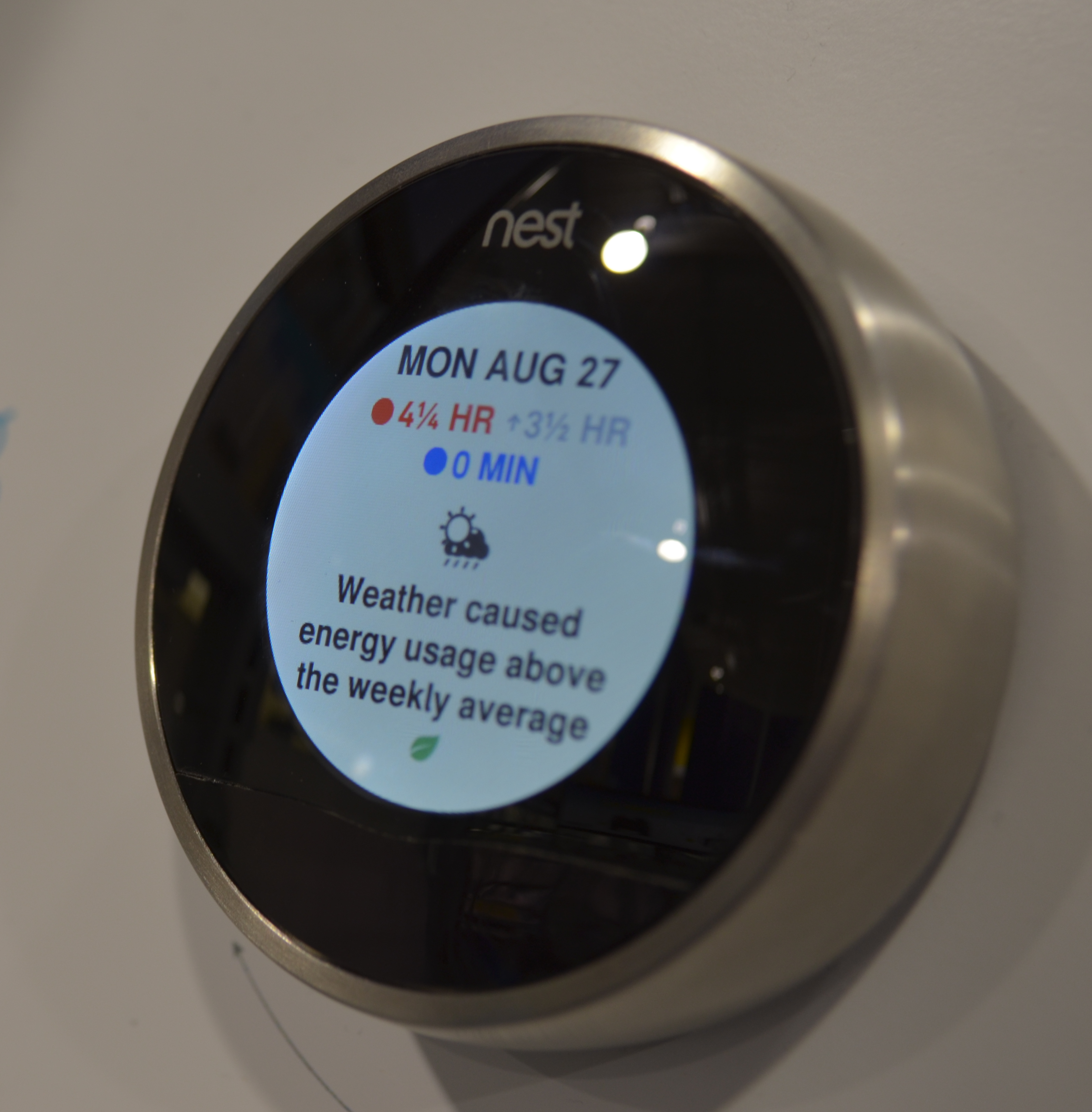 Nest learning thermostat.